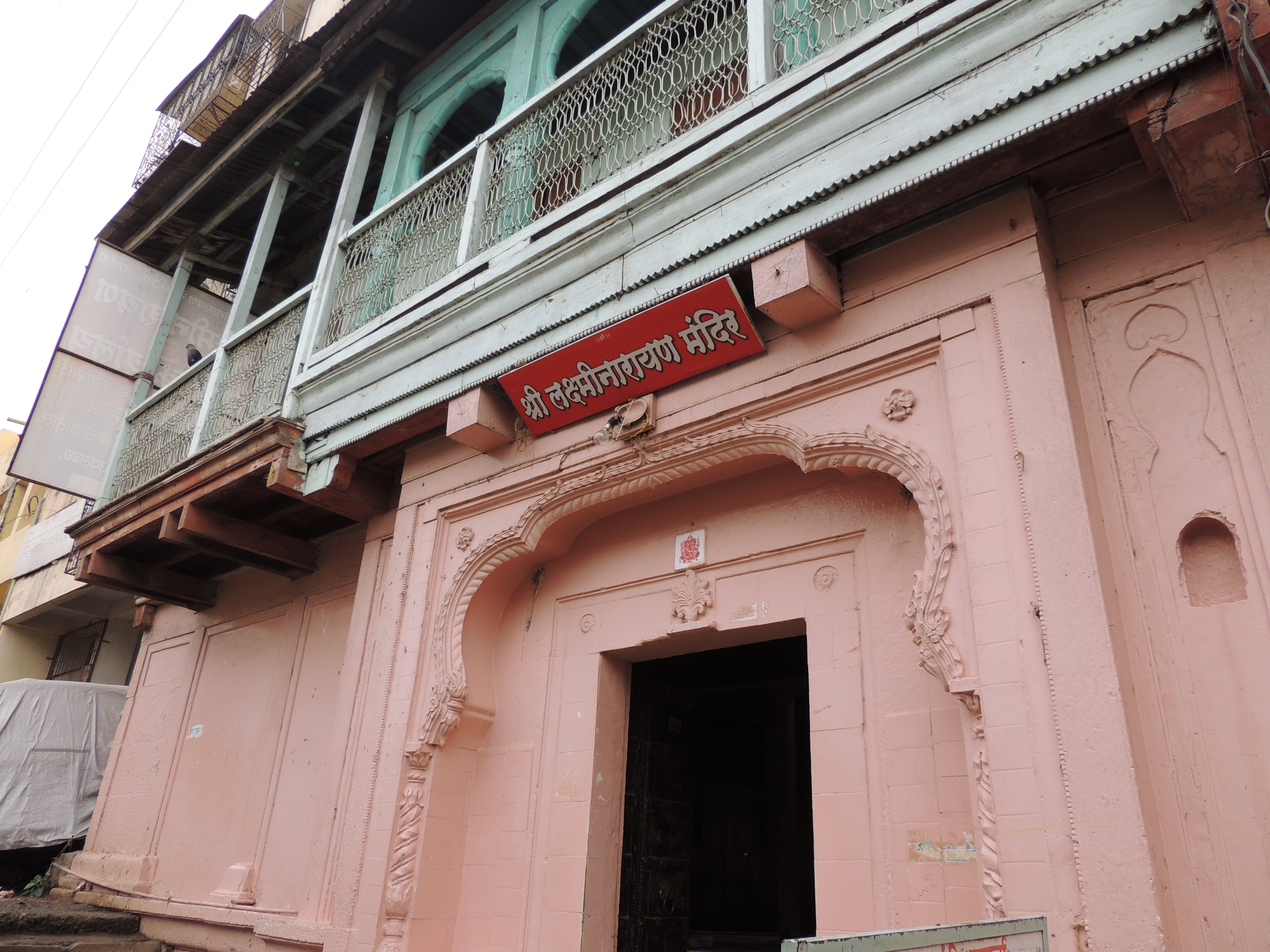 Alandi Pune